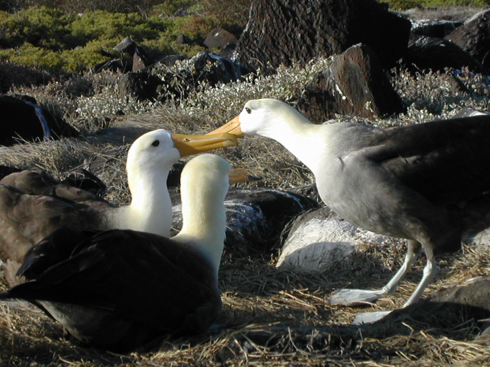 "Albatross clan", Galapagos. A "team" of nesting Waved Albatross (Phoebastria irrorata), Galapagos Islands, Ecuador. (Is that bird giving something to the others or just fighting for territory?) I felt that showing the gray area between play and fighting shows the "give and take" of family dynamics.